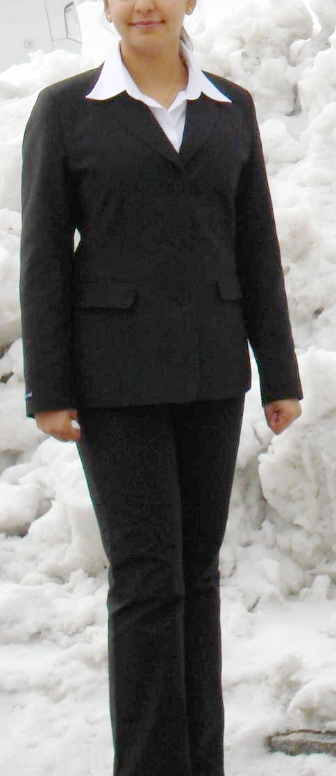 [Ladies] Suit, as worn in standard corporate etiquette